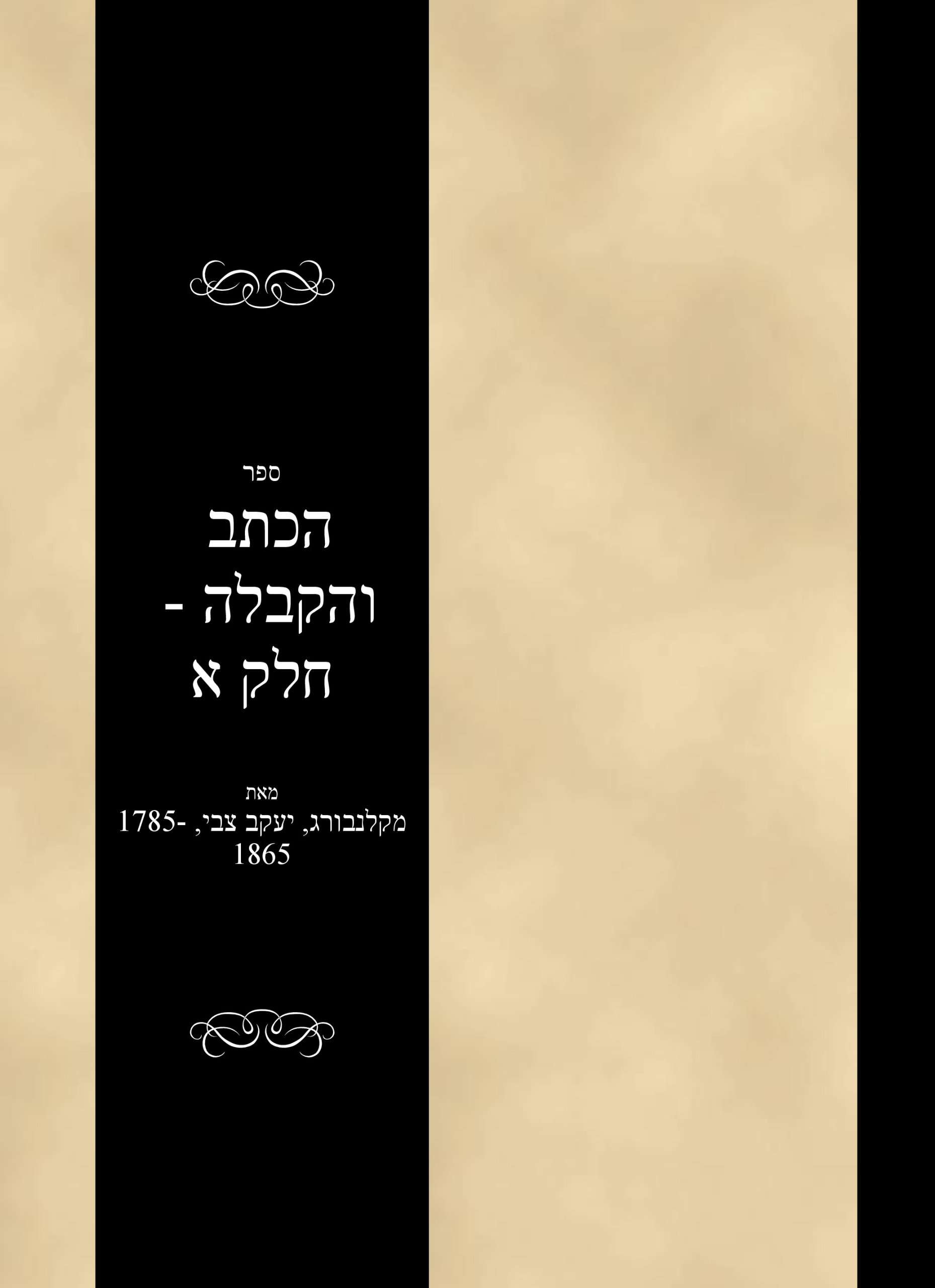 A modern edition of Sefer HaKsav veHakabalah by Yaakov Tzvi miKolenberg - Volume 1 (Hebrew Edition). It was first published in 1839.